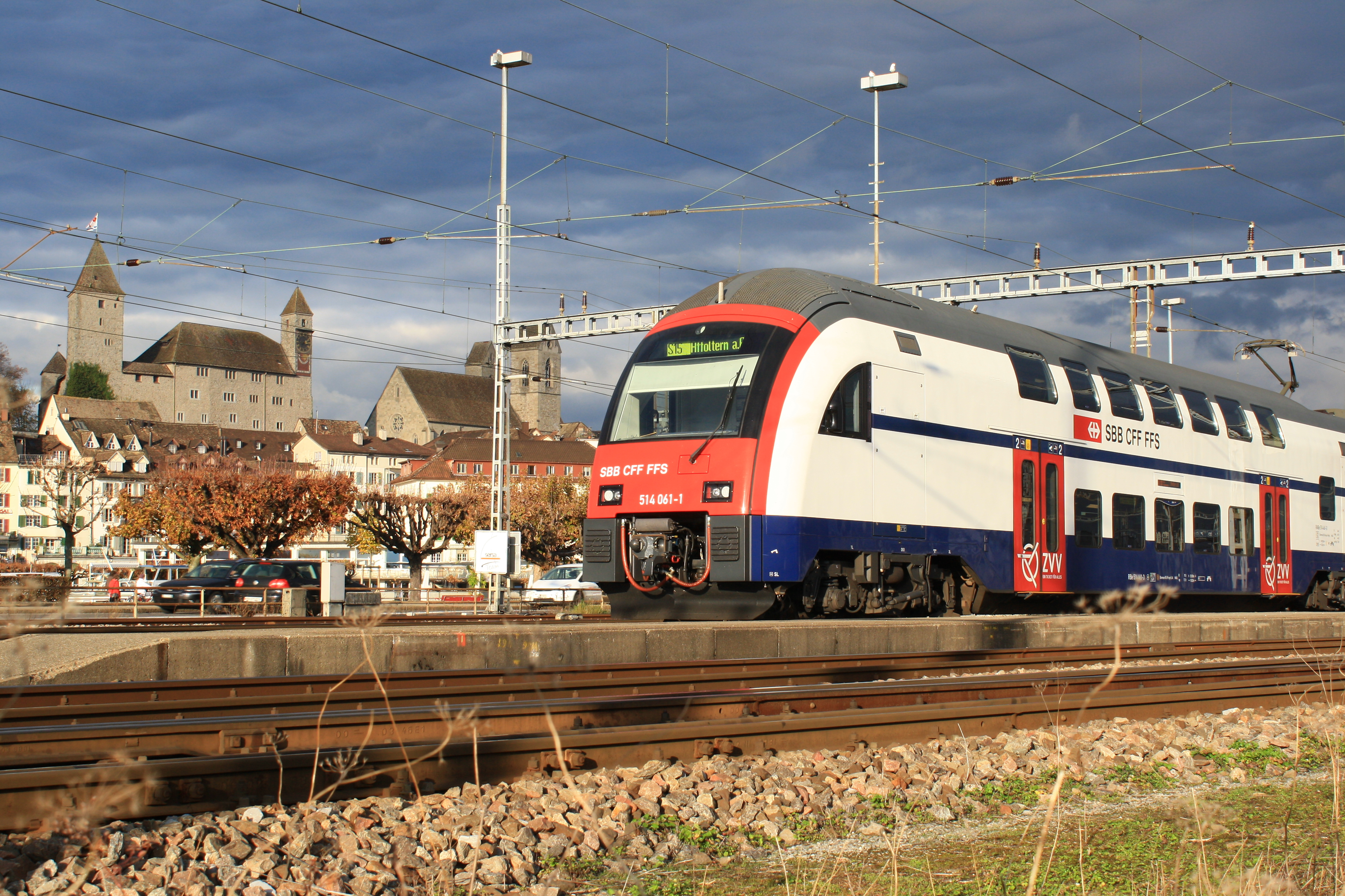 SBB RABe 514 of the S-Bahn Zürich's S15 line at the train station in Rapperswil (Switzerland), as seen from Seedamm, Rapperswil castle and St. John's Church in the background.